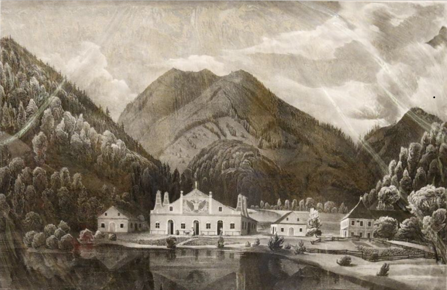 Töpperwerk Kienberg um 1840